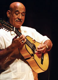 DiomedesMatos (left) shows off one of his handmade cuatros while playing with his son Pucho at the 2006 NEA National Heritage Fellows concert.